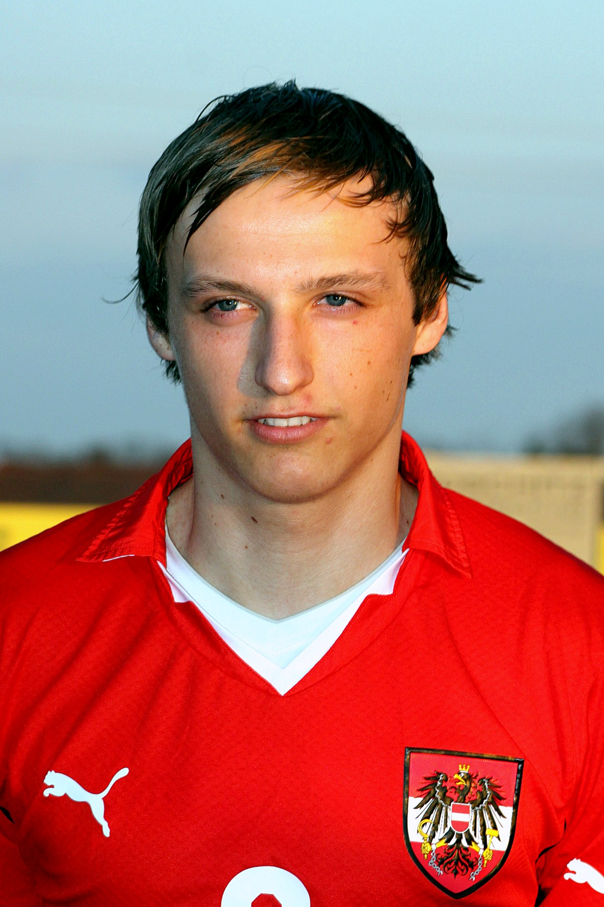 Marcel Ritzmaier (PSV Eindhoven) - in the U-19-friendly match Austria (class 1993) vs. Slowakia (class 1993). Object location47° 44′ 53.87″ N, 16° 28′ 58.97″ E